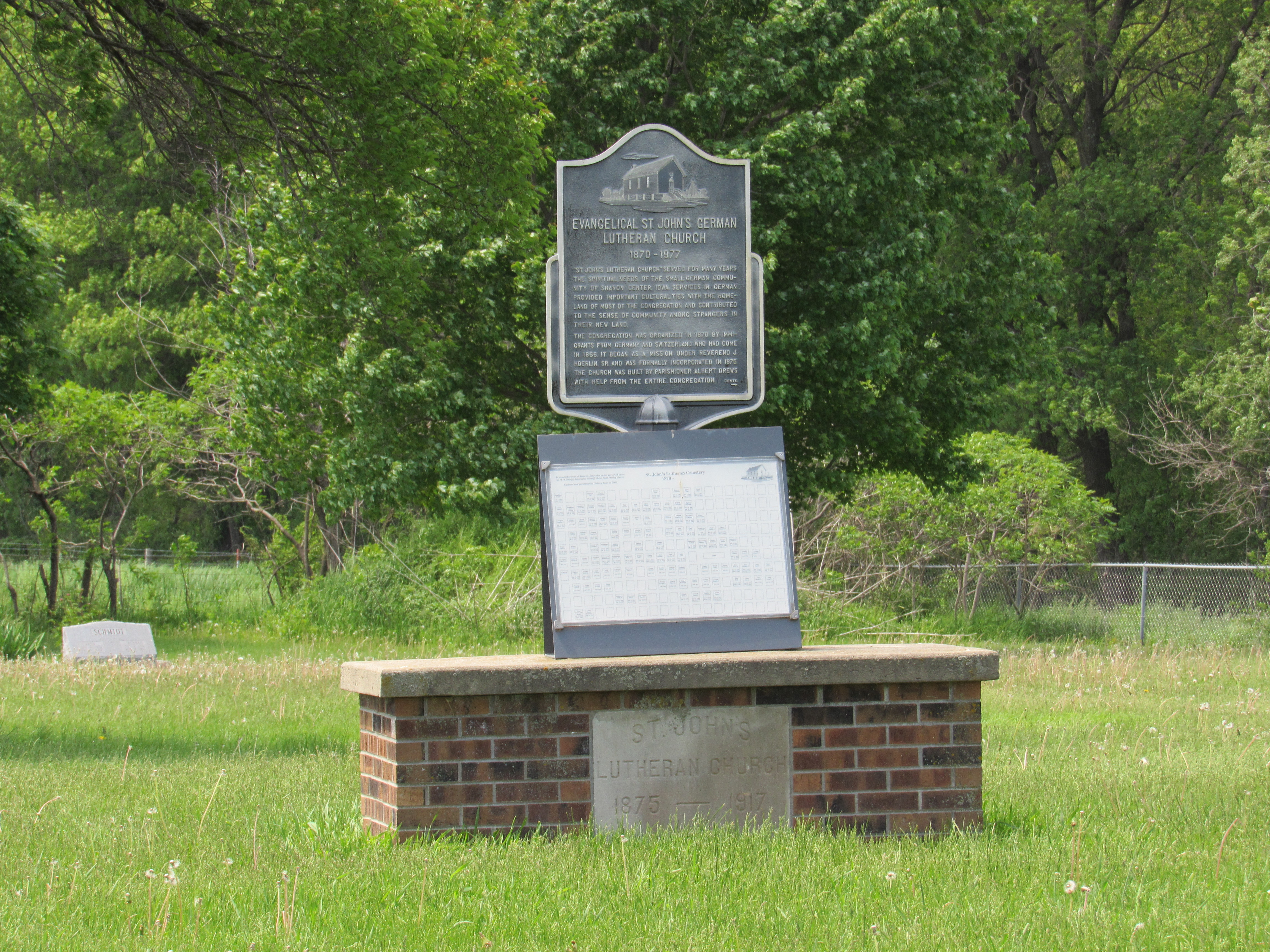 The monument marking the location of the former St. John's Lutheran Church north of Kalona, Iowa.